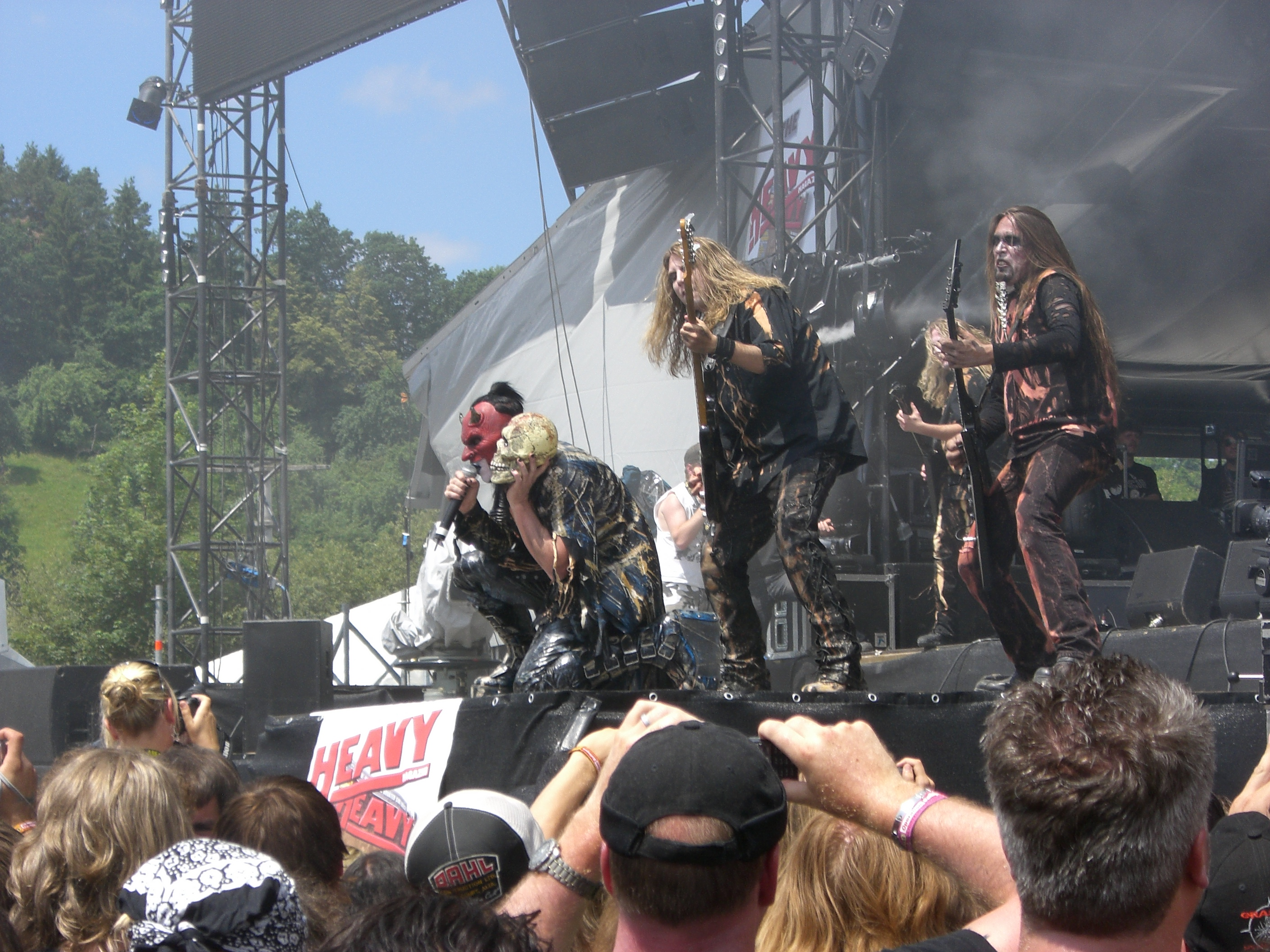 American Metal Band Lizzy Borden on stage at the Bang Your Head Festival 2008 in Balingen, Germany